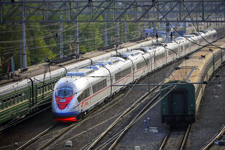 A Sapsan (Siemens Velaro Rus) train en route from Moscow to Saint Petersburg